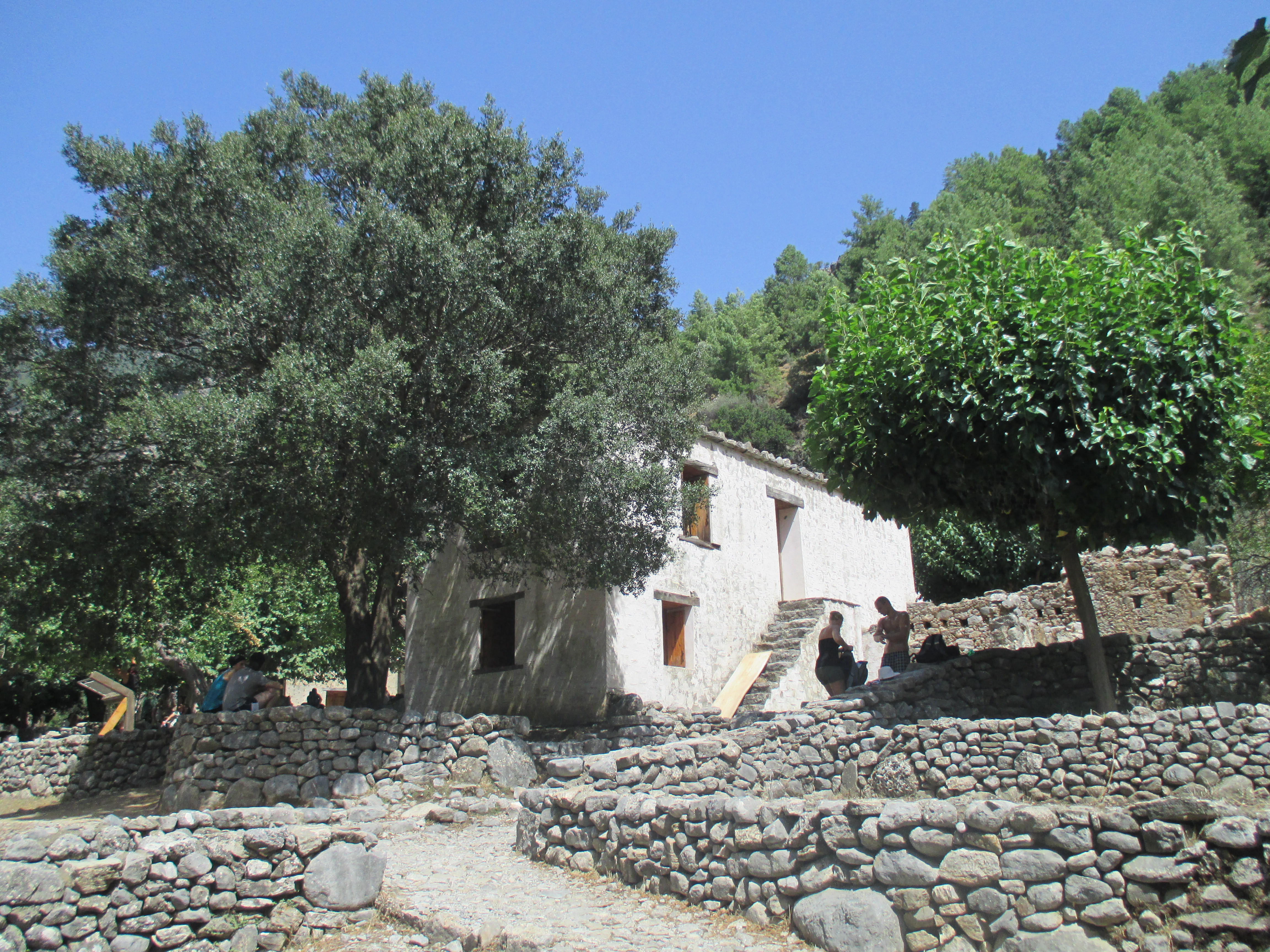 Deserted Samaria village, Samaria Gorge, Crete.